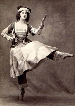 Tamara Karsavina as the Ballerina Doll in Petrushka